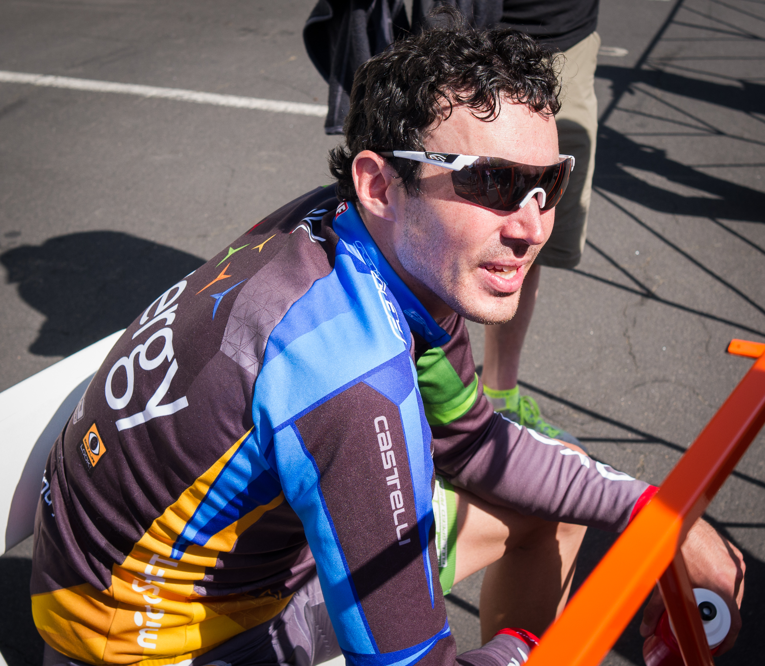 Sam Johnson, Team Exergy, waiting for his anti-doping test after the first stage of the 2012 Amgen Tour of California, in Santa Rosa.